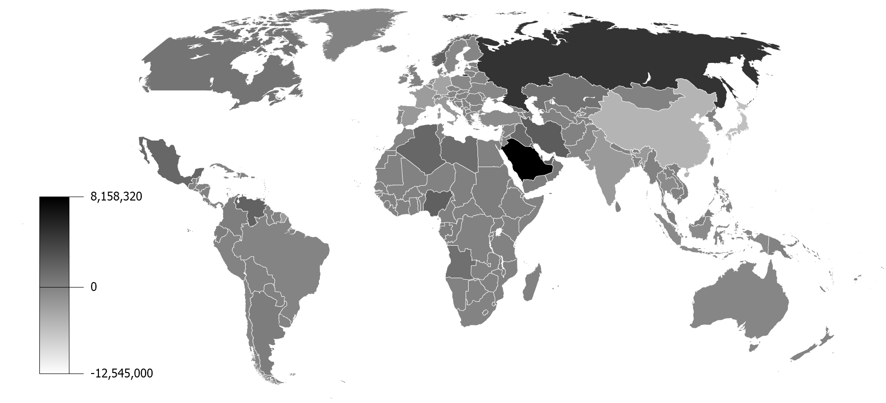 Oil exports minus oil imports, bbl/day.